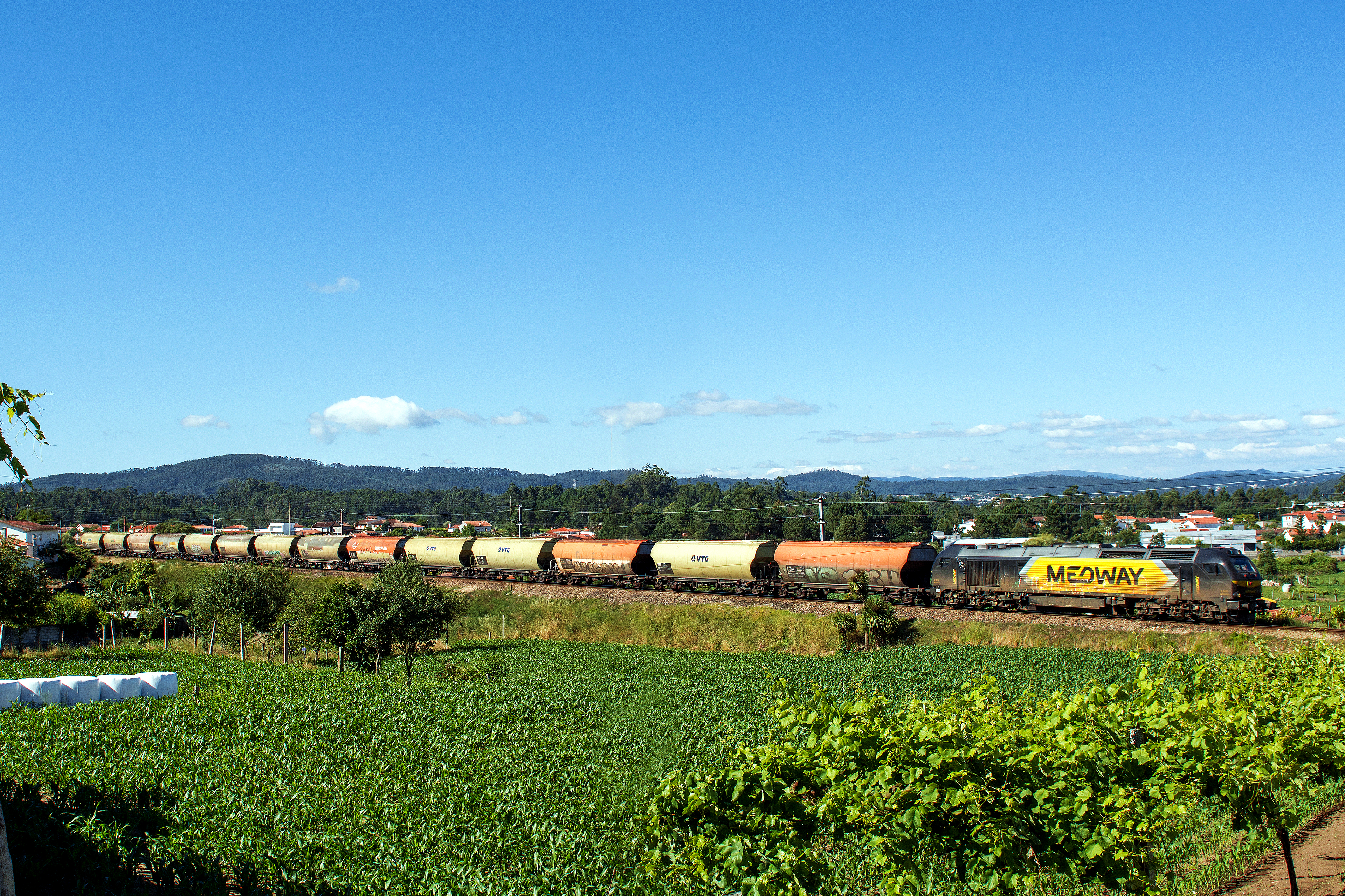 92208 Tuy - Gaida Devesas